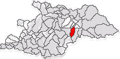 Map of Ieud commune in Maramureş